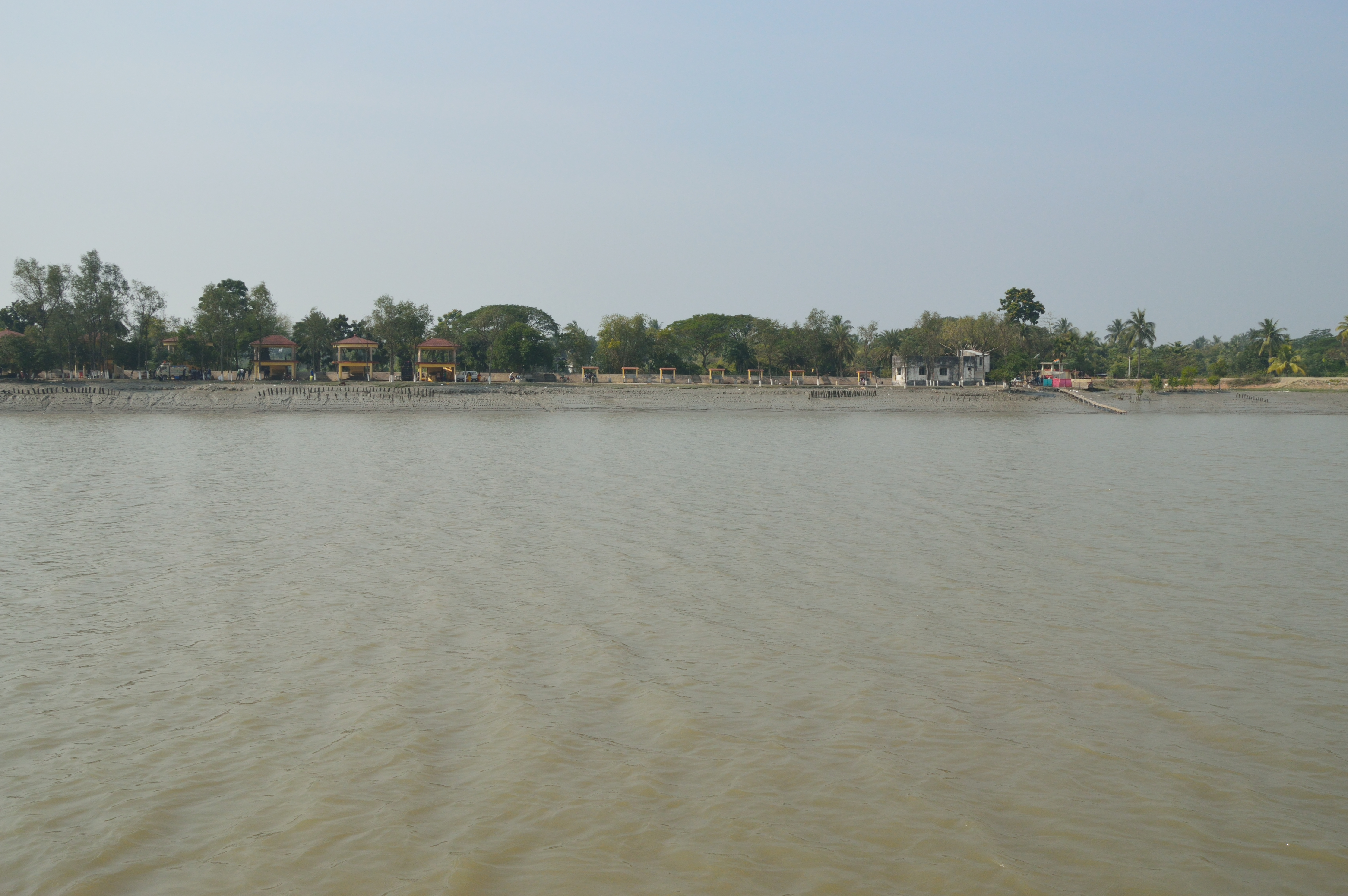 Video-graphed at Taki, North 24 Parganas.